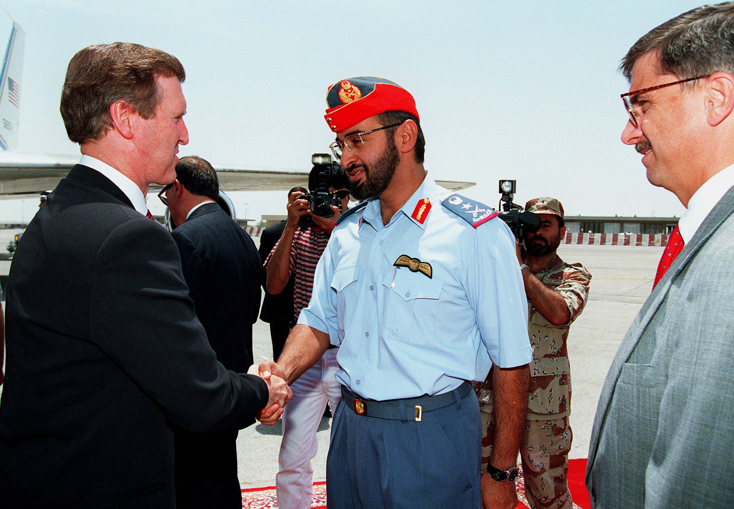 Secretary of Defense William S. Cohen (left) travels to Abu Dhabi, United Arab Emirates on June 17, 1997, and is met by His Highness Lt.Gen. Sheikh Mohammed Bin Zayed Al Nahyan (center), Chief of Staff, U.A.E. United States Ambassador to U.A.E. the Honorable David Litt is at far right.